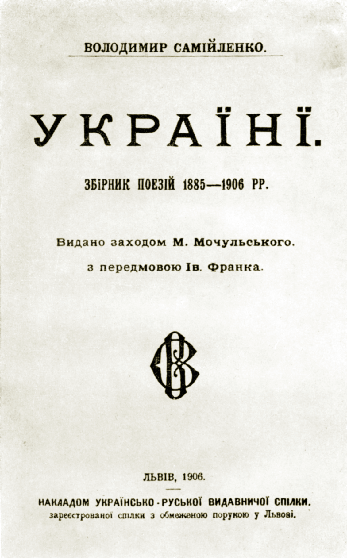 Cover of "Ukrayini" - collection of poetry by Volodymyr Samiylenko, Ukrainian writer, poet and satirist (1864-1925).